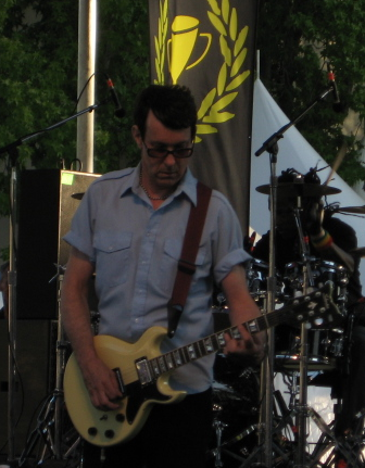 East Bay Ray performing at the Harmony Music & Arts Festival.